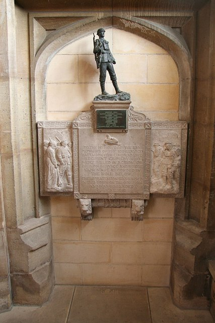 Lincolnshire Regiment Memorial Memorial in St.James church To the memory of the 810 members of the 10th (Service) Battalion - The Lincolnshire Regiment (Grimsby)who were killed in action or died on service and whose names are recorded on the roll below. The 10th Battalion was raised in this town on the 9th September 1914 and was disbanded 3rd June 1919. The roll of honour is inscribed in plaques made from gun-metal and now stands adjacent to rather than below